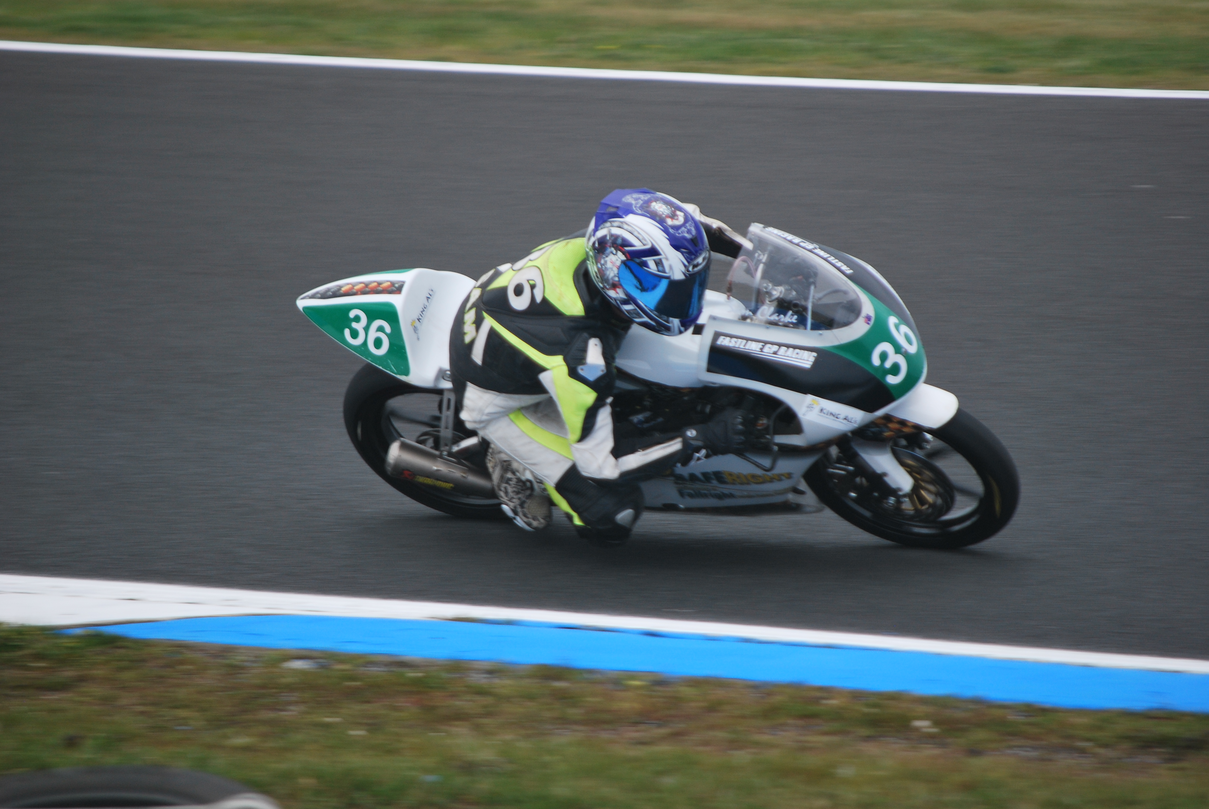 2012 Australian motorcycle Grand Prix – Moto3 – #36 Sam Clarke – Honda – Fastline GP Racing